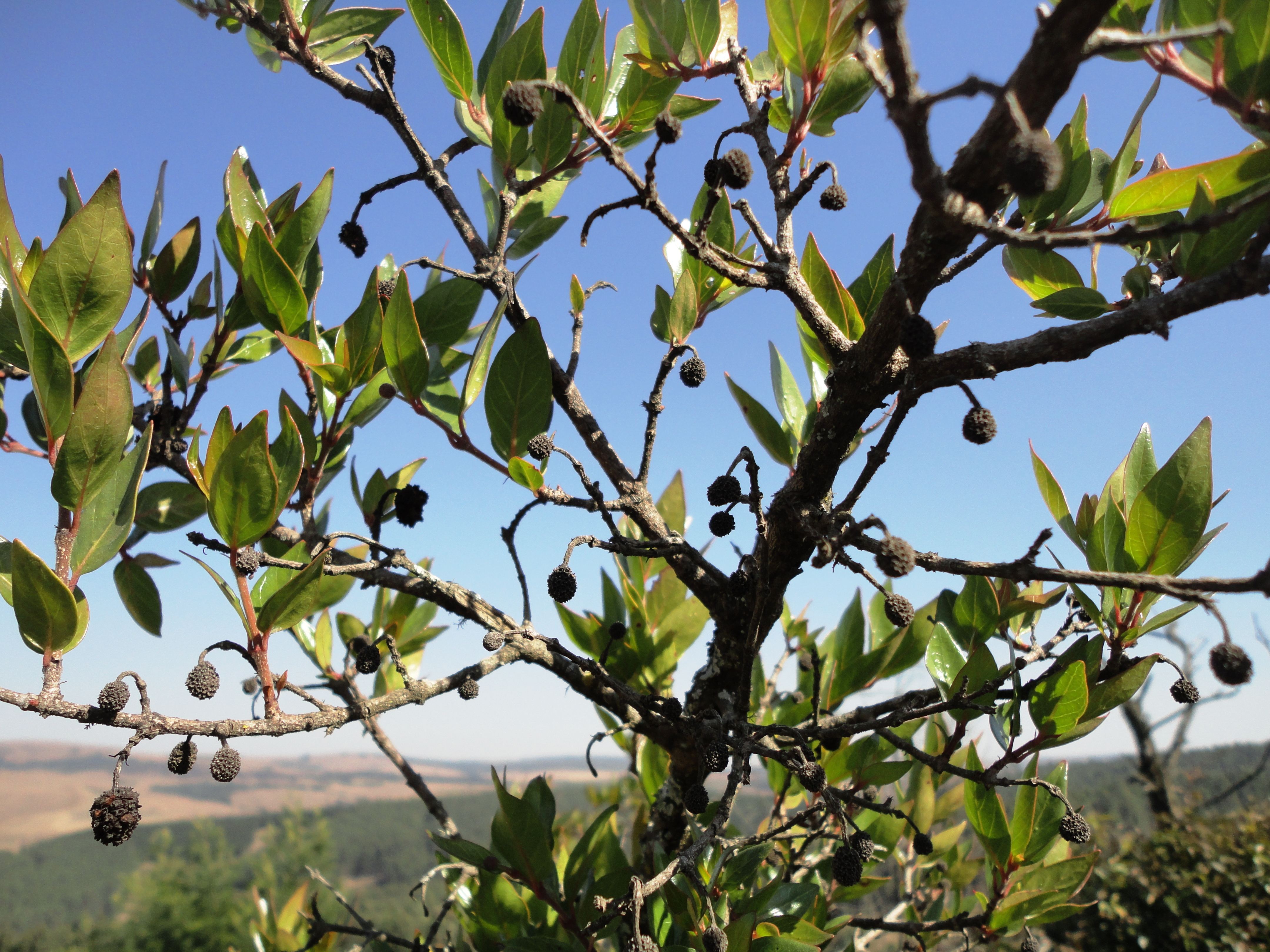 Foliage and fruit of a Strawberry Bush, near a hilltop, Louwsburg, KwaZulu-Natal